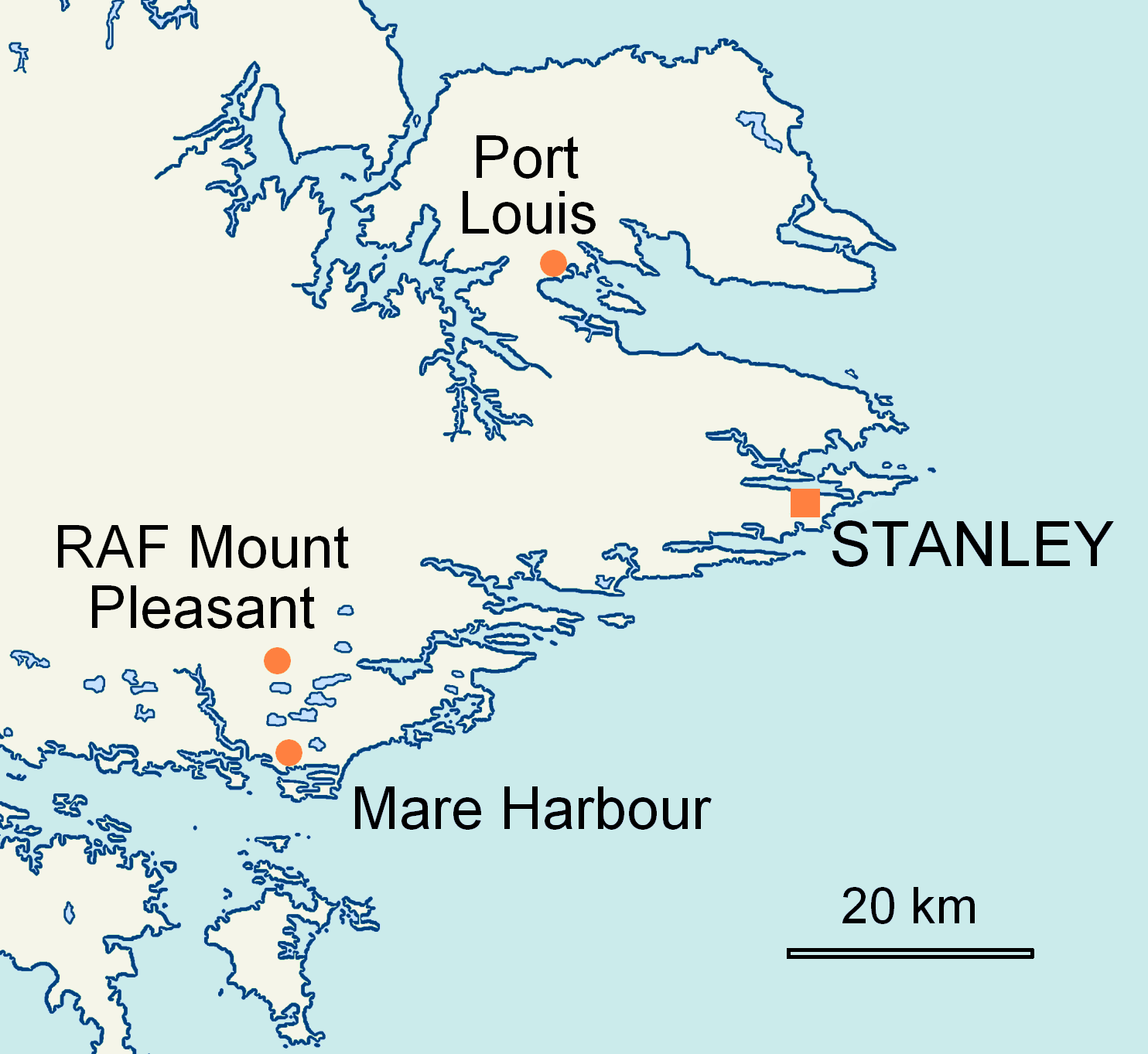 Location map for the city of Stanley on East Falkland, Falkland Islands